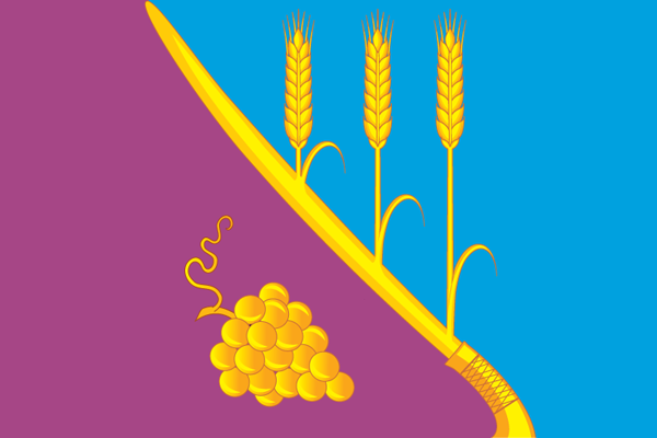 Flag of Starotitarovskoe rural settlement, Krasnodar Territory, Russia